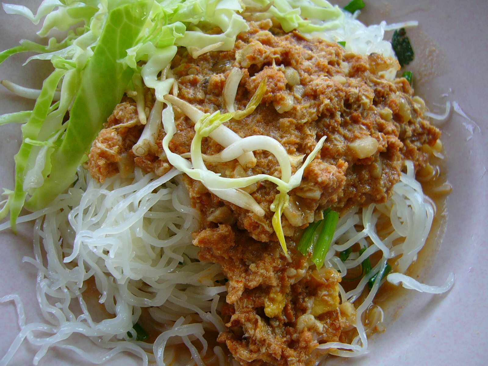 Khanom chin namya- round boiled rice noodles (khanom chin) topped with a fish based sauce and eaten with fresh leaves and vegetables.